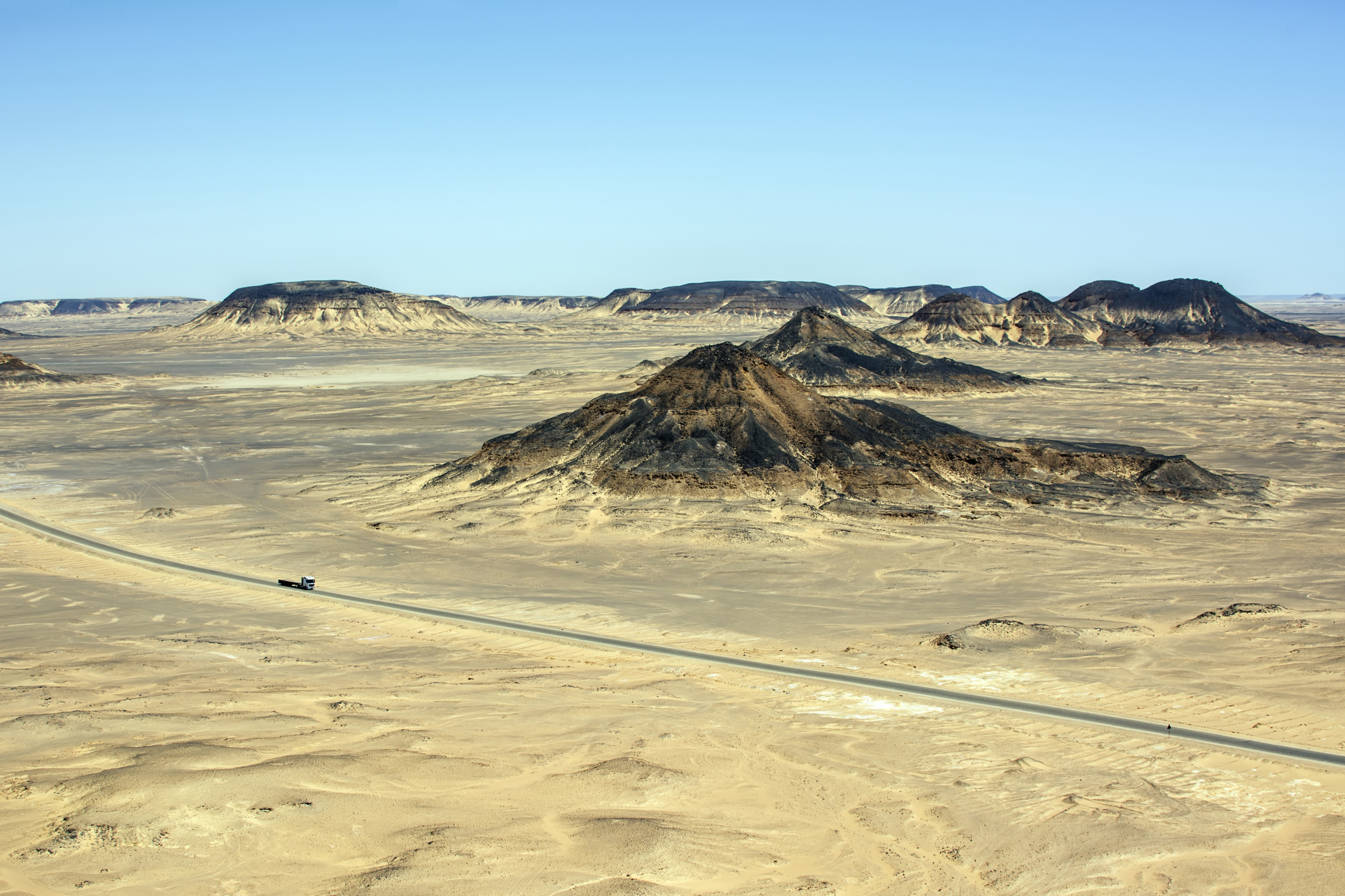 The Black Desert located in Bahariya Oasis in the Western Desert, Egypt This is an image with the theme "Africa on the Move or Transport" from: Egypt